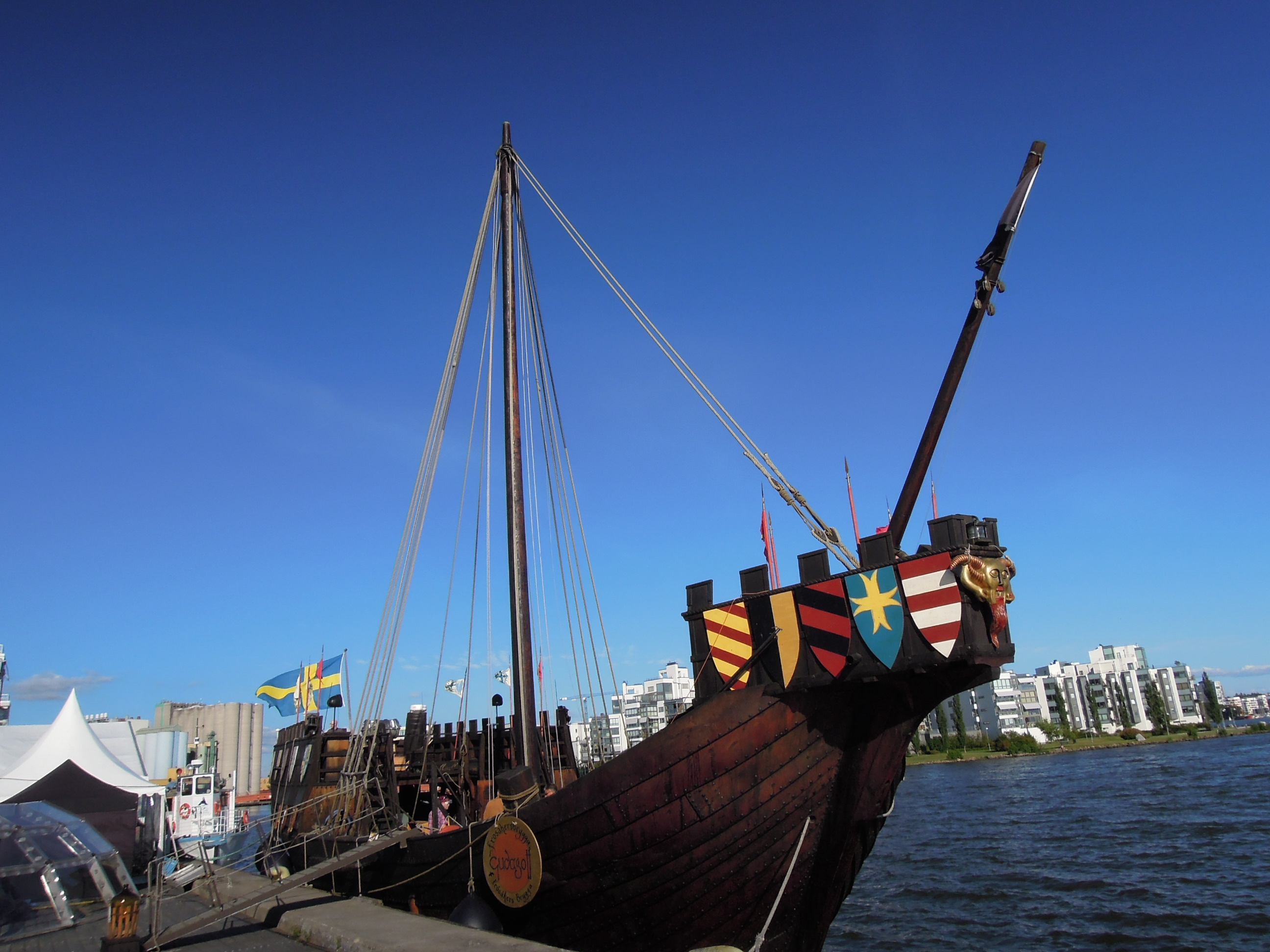 Replica of a cog (ship) found 1991 in Öresund outside Skanör harbor. The cog was named Tvedräkt av Elbogen and renamed to Roter Teufel after a cog owned by Klaus Störtebeker, who was a wellknown pirate in the Baltic during the end of 14th century. The cog is stationed near Västerås, Sweden. The cog is in the picture temporarily in Västerås